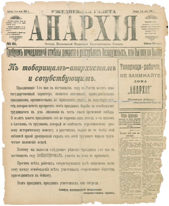 from the Russian State Library